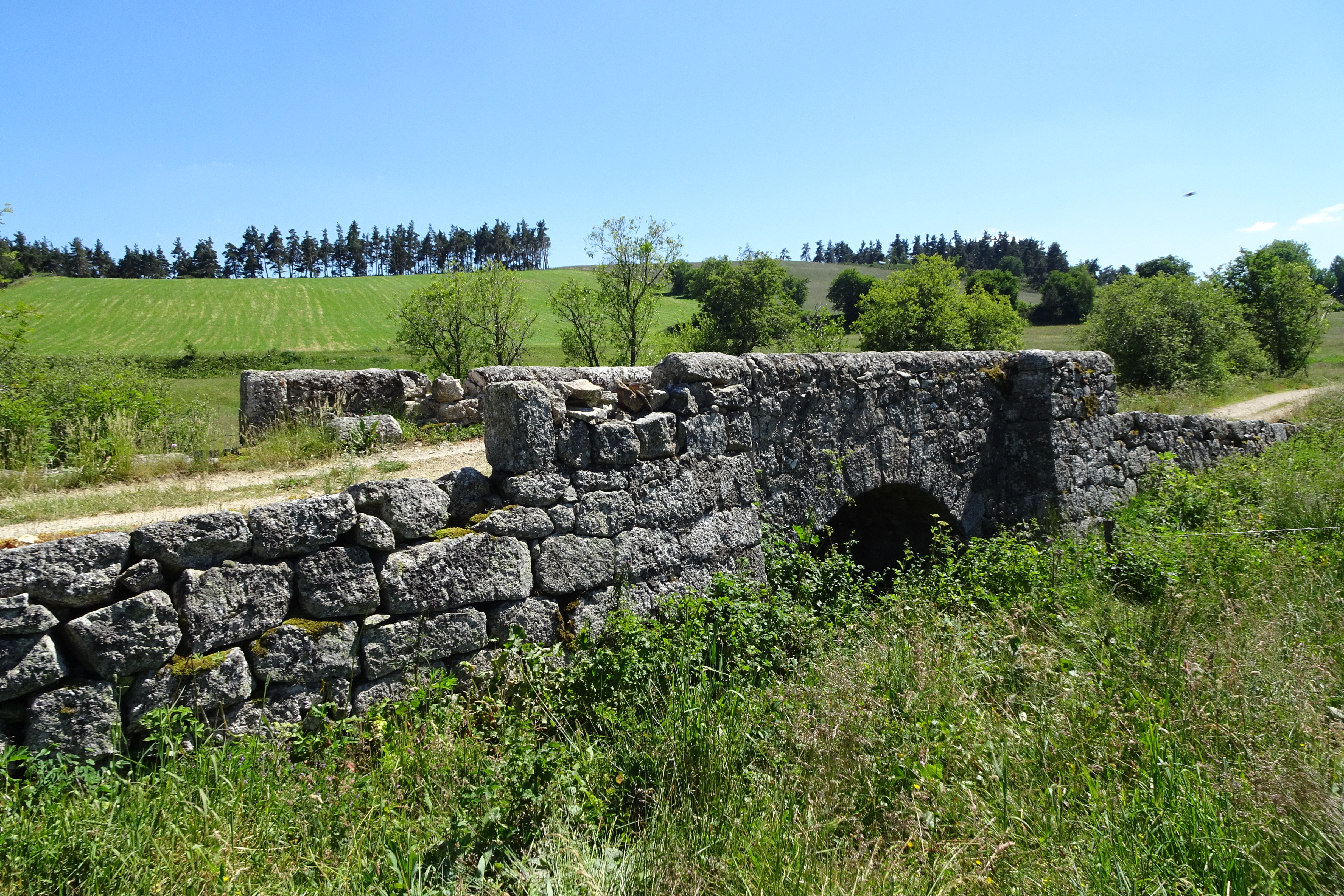 antic bridge de la Bataille-Grandrieu -Margeride-Lozère